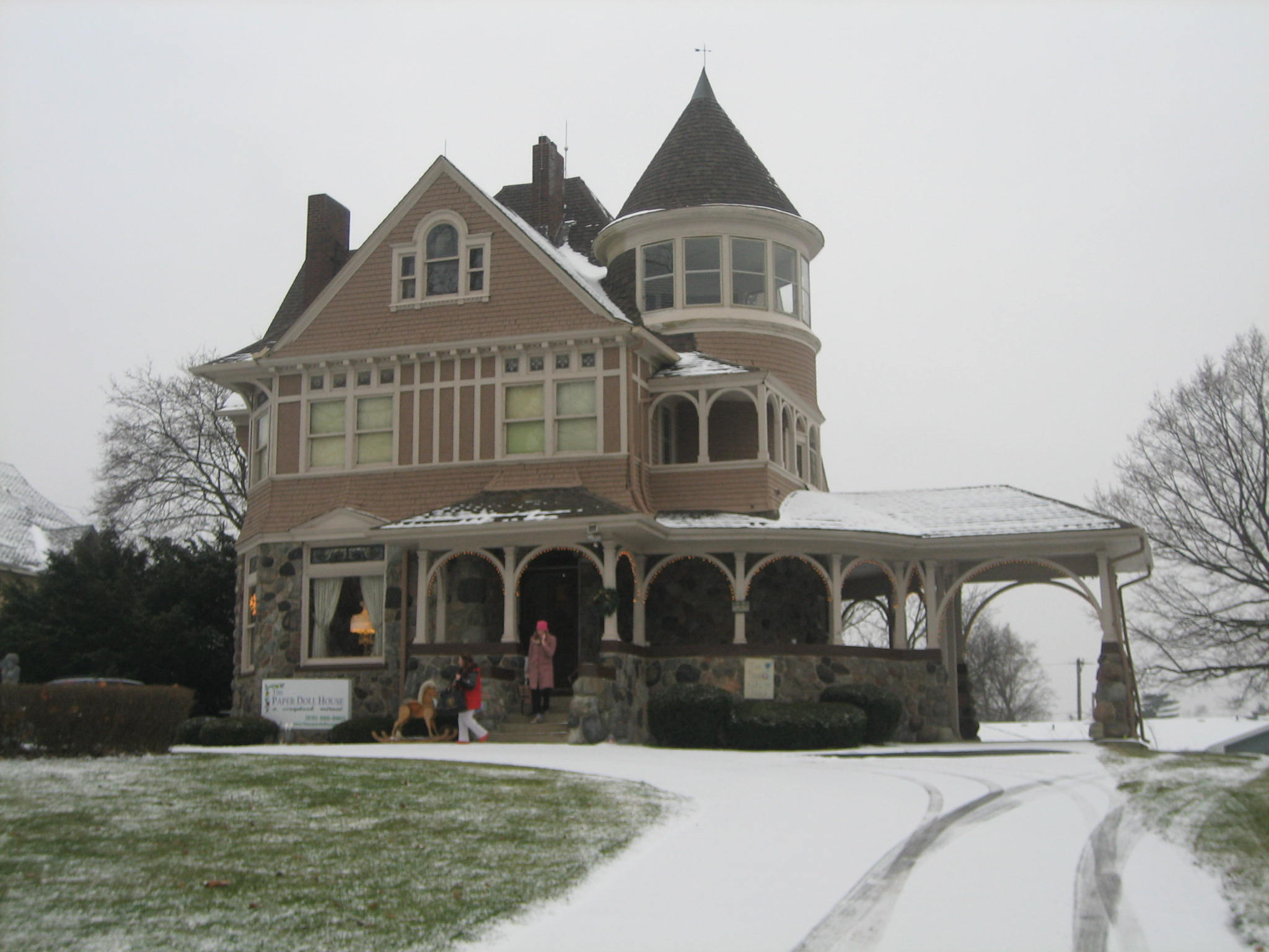 Frederick Townsend Residence, Sycamore, Illinois. 107 W. Exchange St. National Register of Historic Places as part of the Sycamore Historic District.